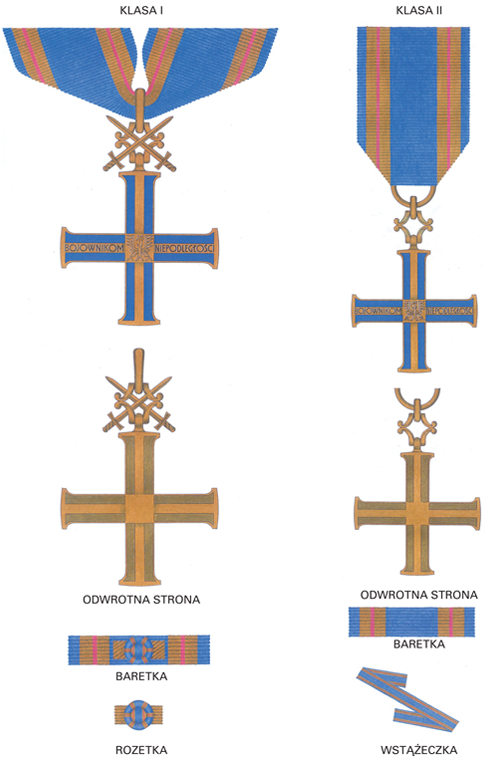 Image of the Cross of Independence in 1st and 2nd classes with accompanying accouterments.